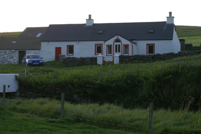 The Haa, Skaw Famous as the most northerly house in Britain.